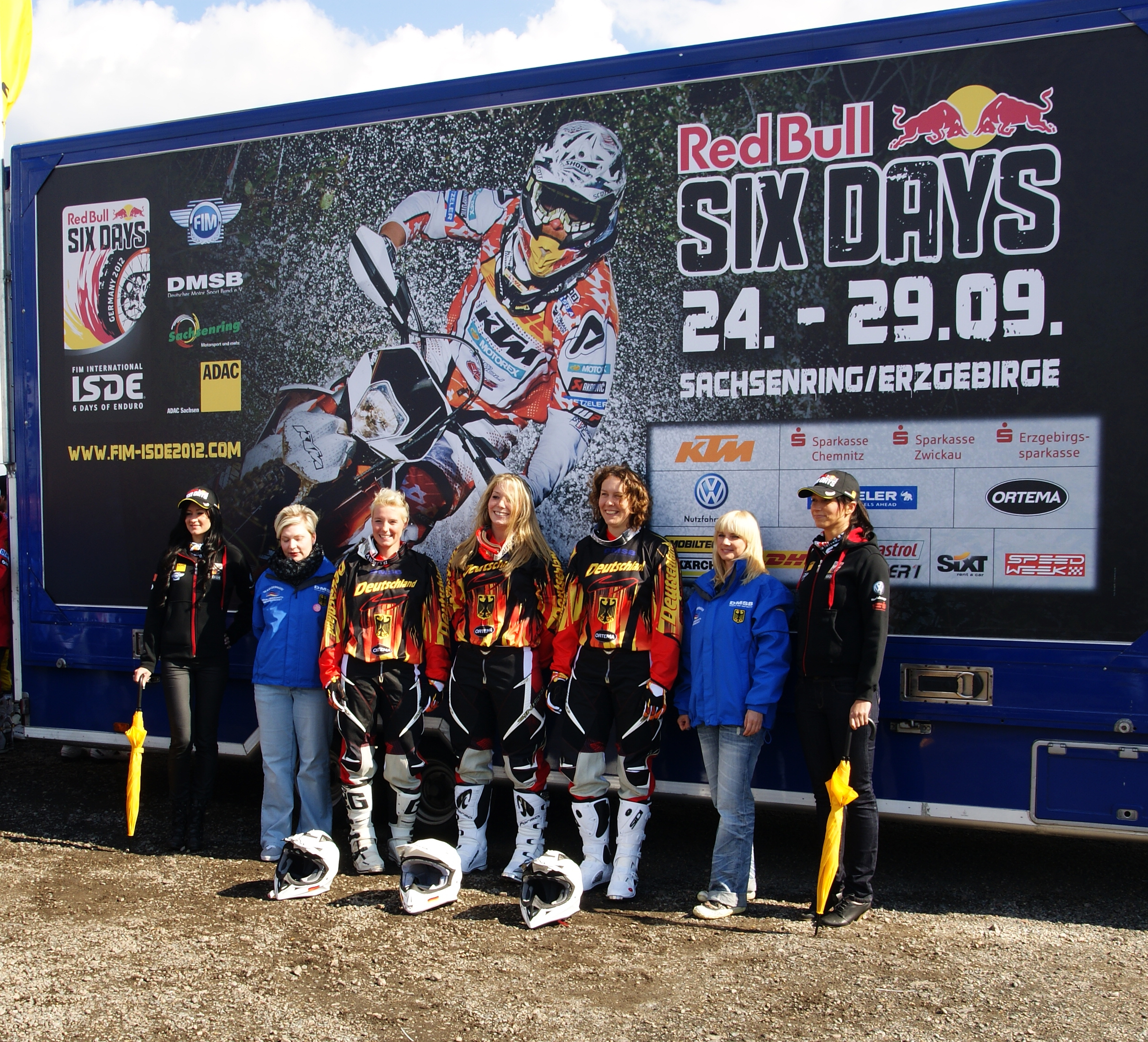 The making of this document was supported by the Community-Budget of Wikimedia Germany. 87. ISDE Red Bull Six Days 2012 Womens Team Germany